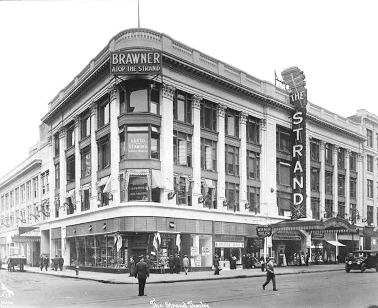 Cropped (on left) version of File:Strand Theatre (Manhattan).jpg